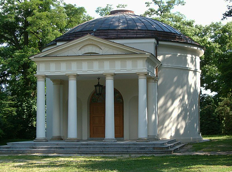 Panteon in Dobrzyca, Poland, freemasonic lodge building (currently not in use)